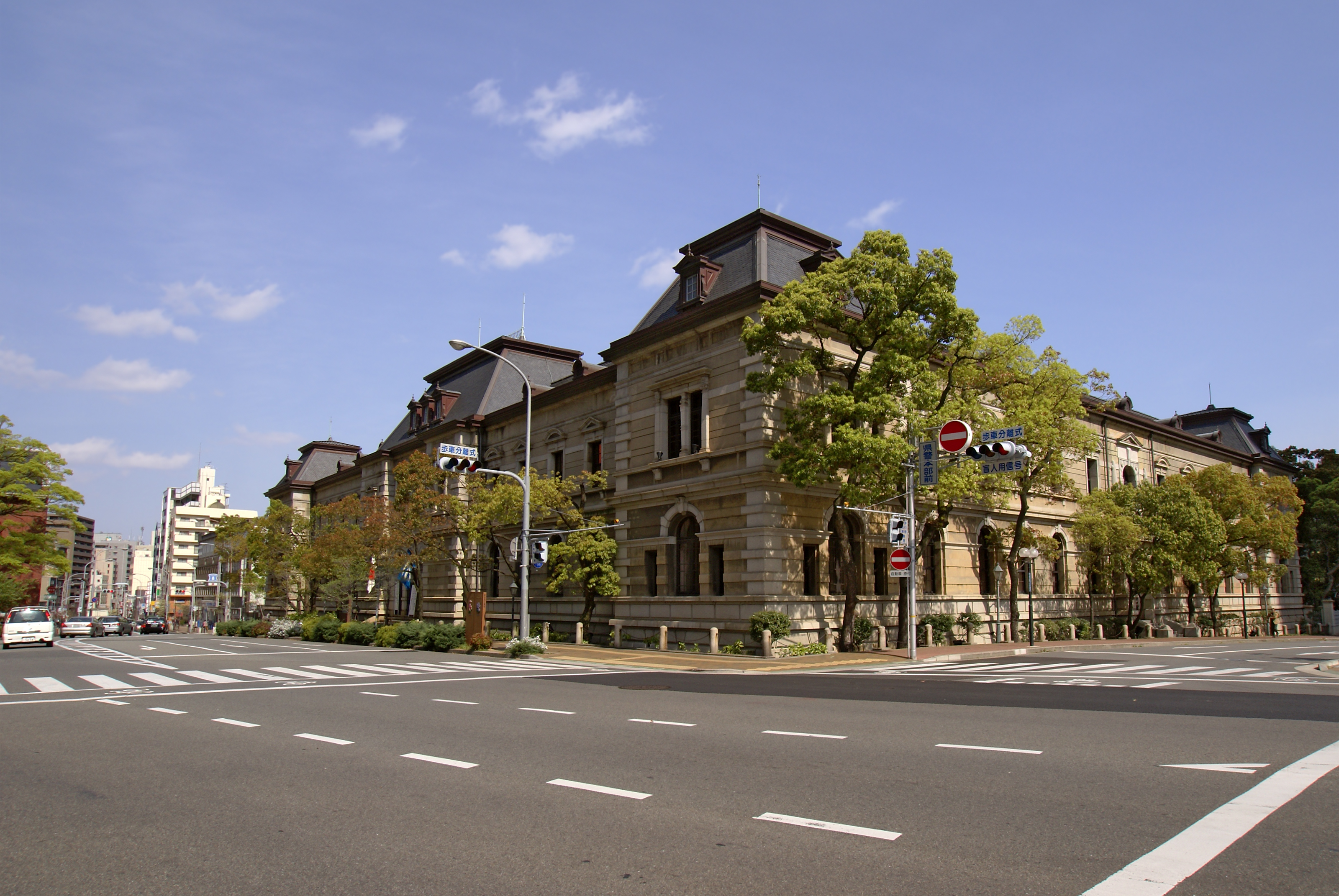 Old Hyogo Prefectural Office Building in Kobe, Hyogo prefecture, Japan